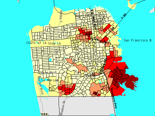 This image is a self-generated thematic map from the U.S. Census Bureau's American Factfinder at by Wikipedia user Stevey7788.